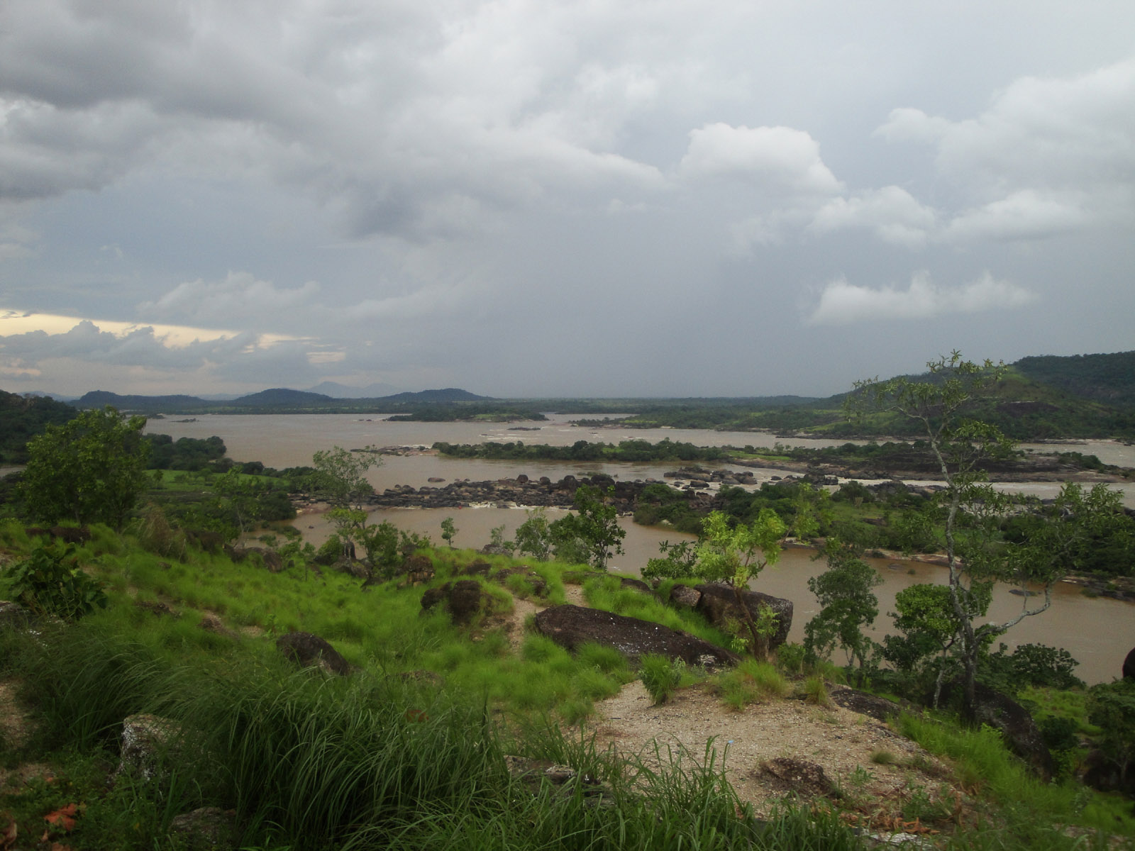 Rio Orinoco